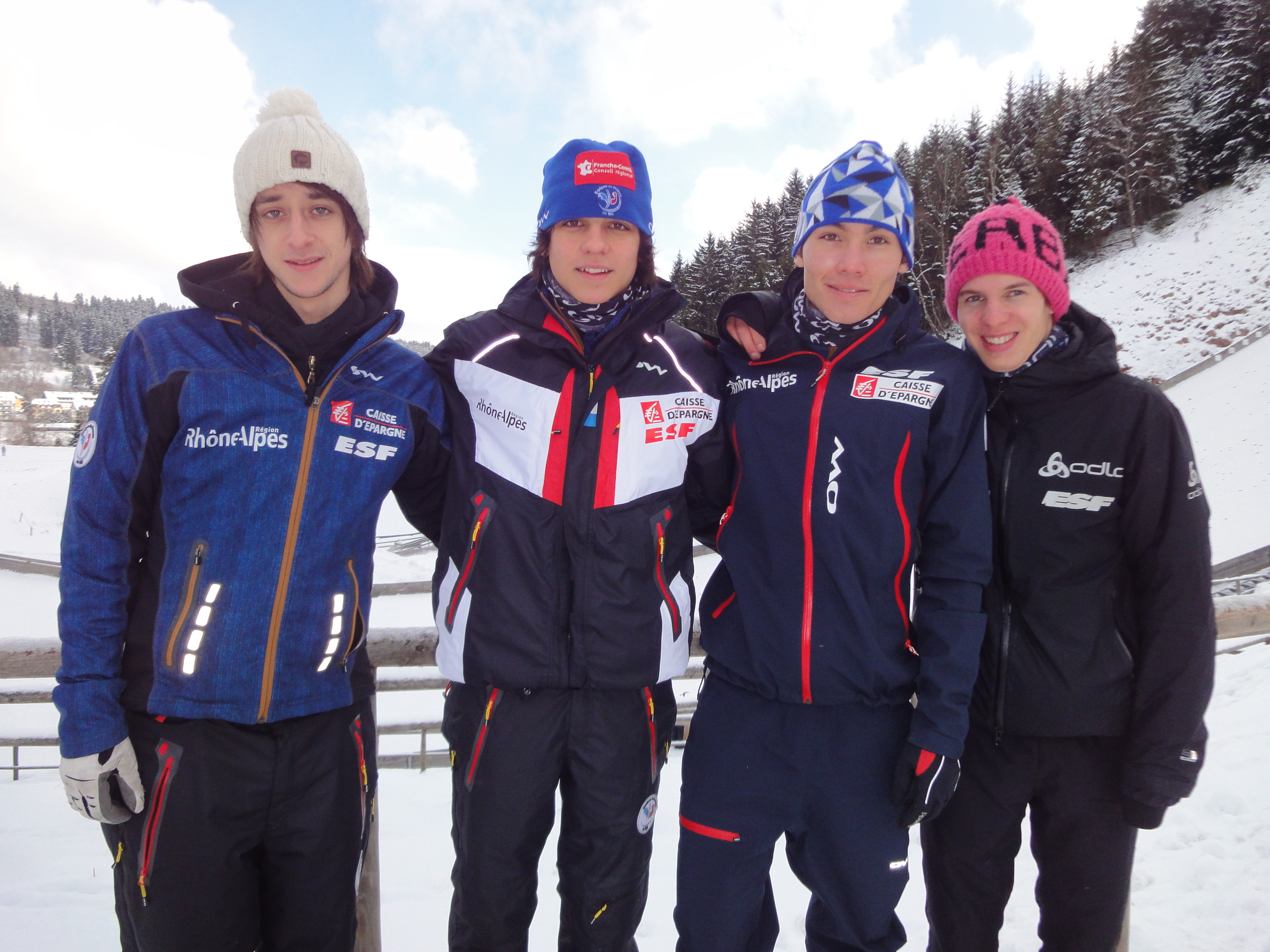 The French ski jumping team (from left to right: Alexandre Mabboux, Ronan Lamy Chappuis, Nicolas Mayer and David Viry): the photo was taken during Saturday's competition of 2011's Continental Cup event at the Hochfirstschanze in Titisee-Neustadt